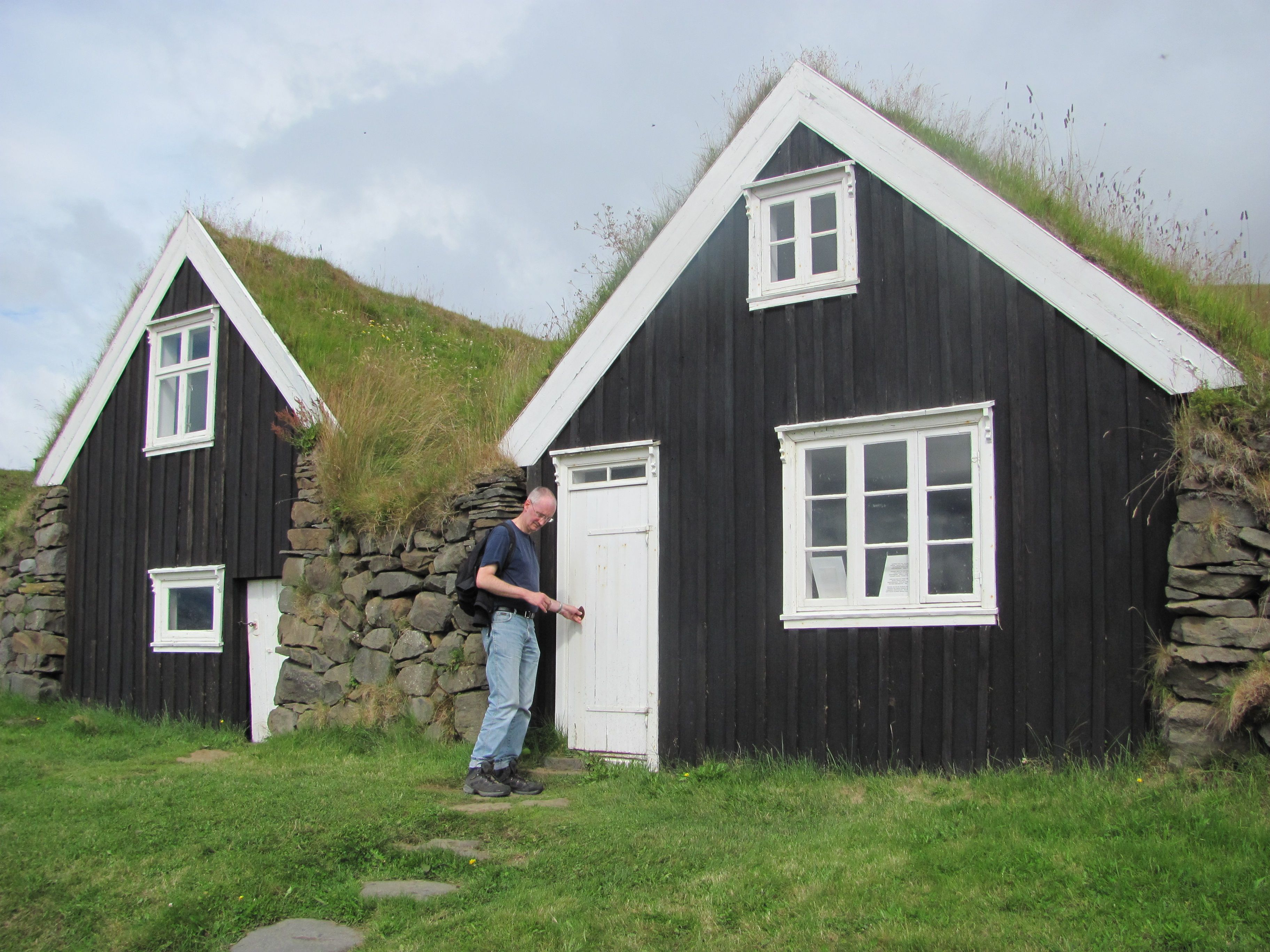 Farmhouse of Sel (Iceland). Traditional turf-architecture of 1912. Part of the collection of the National Museum of Iceland.